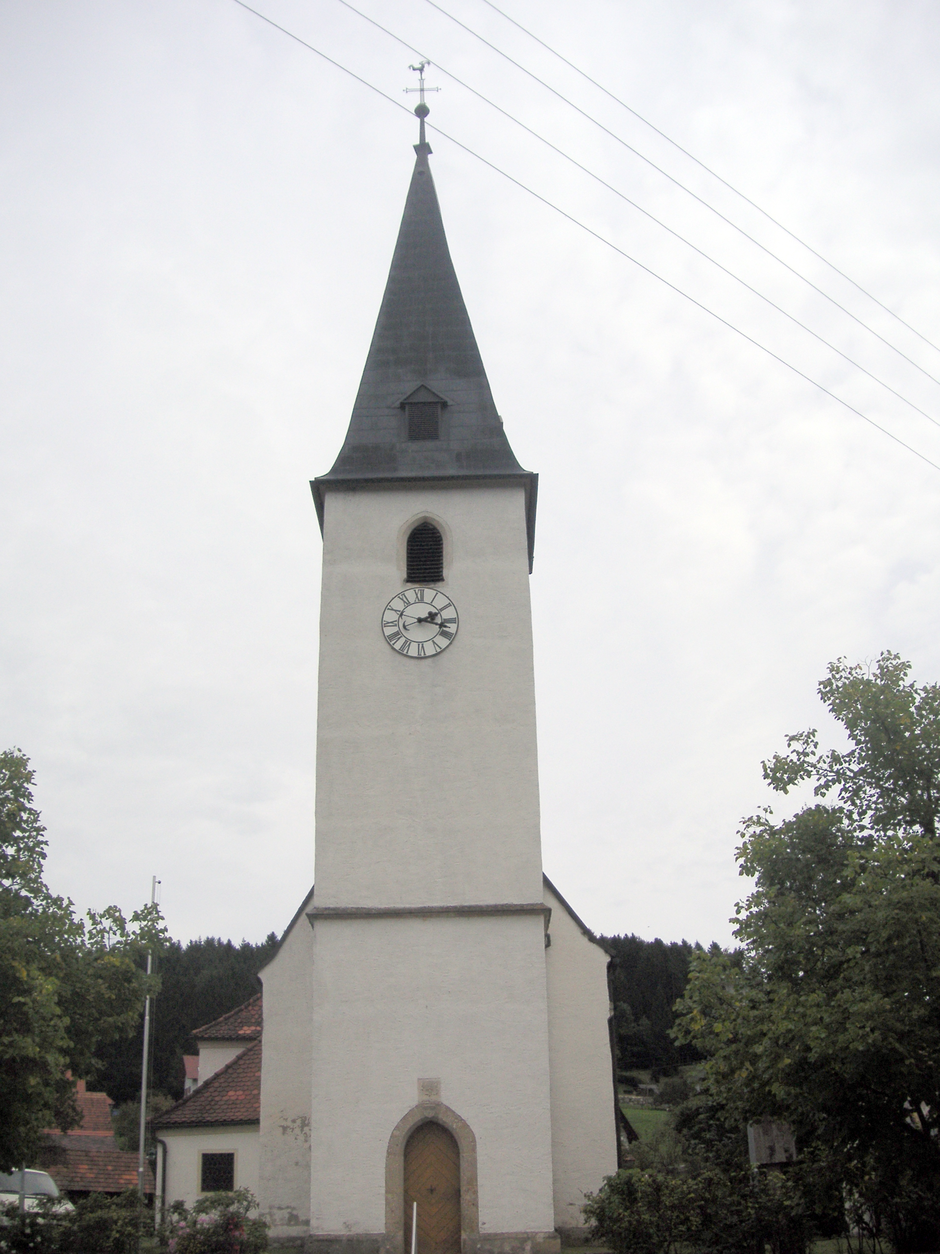 Die katholische Pfarrkirche hll. Philipp und Jakob in Stiwoll im September 20011